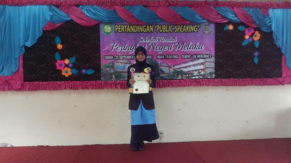 Pertandingan Public Speaking